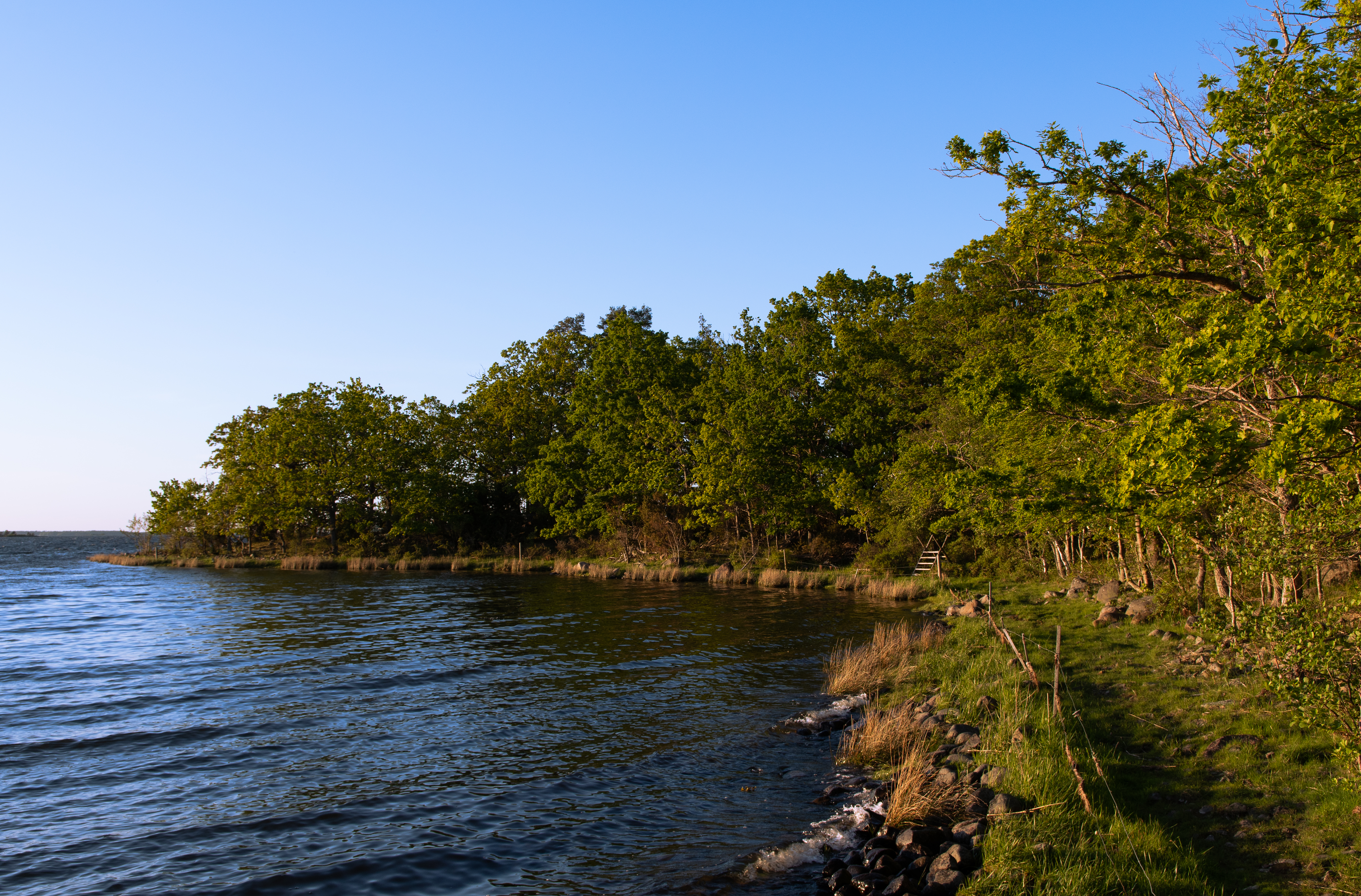 Beach with oaks, Lindö nature reserve